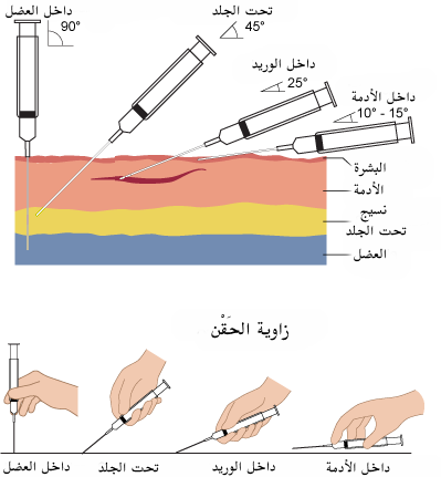 Needle insertion angles for the 4 types of parenteral administration of medication: intramuscular, subcutaneous, intravenous and intradermal injection.